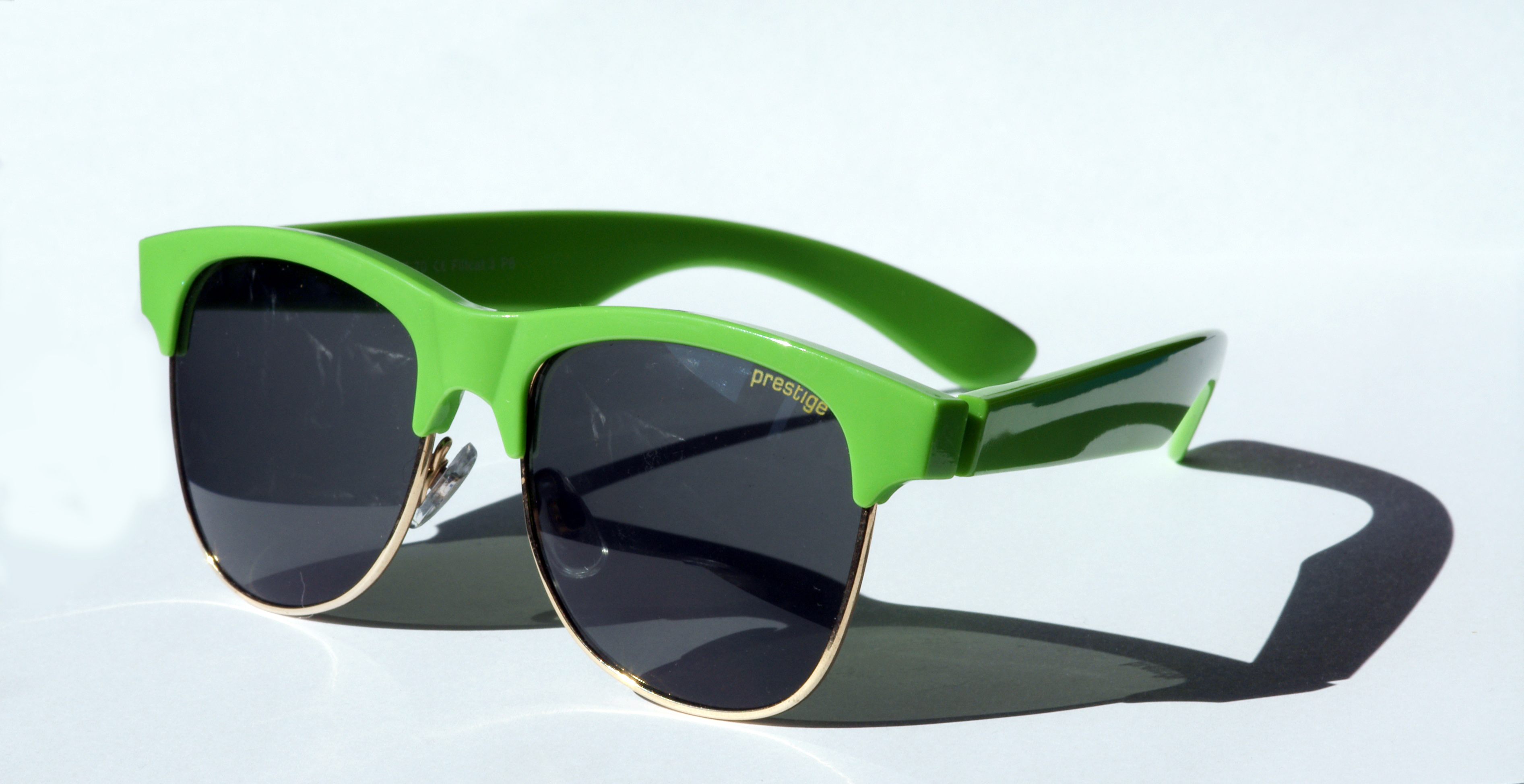 Prestige-sunglasses.